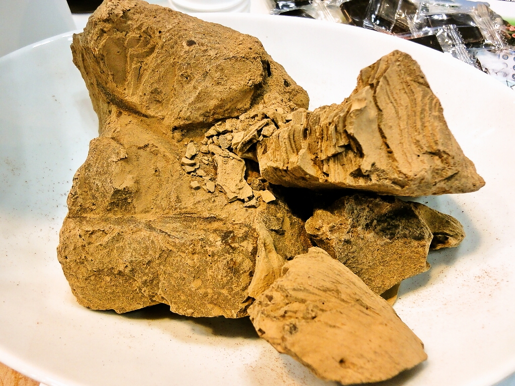 Cocoa Mass